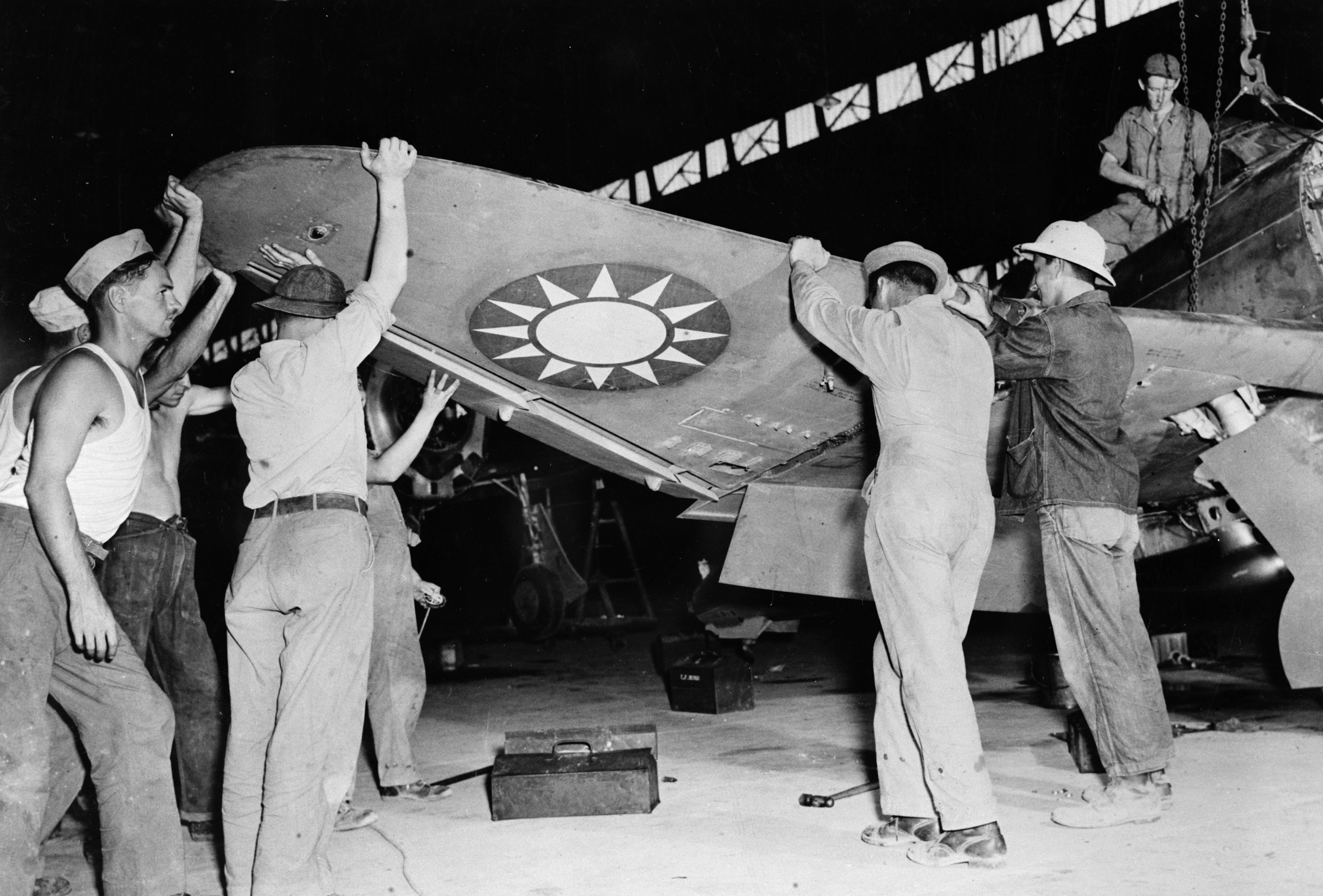 Ground crew men assembling a Republic P-43A-1 Lancer of the Republic of China Air Force, circa 1943.